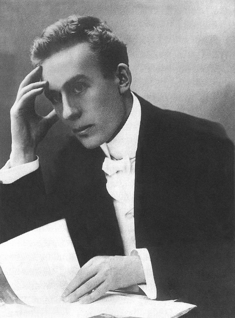 Väinö Sola finnish singer